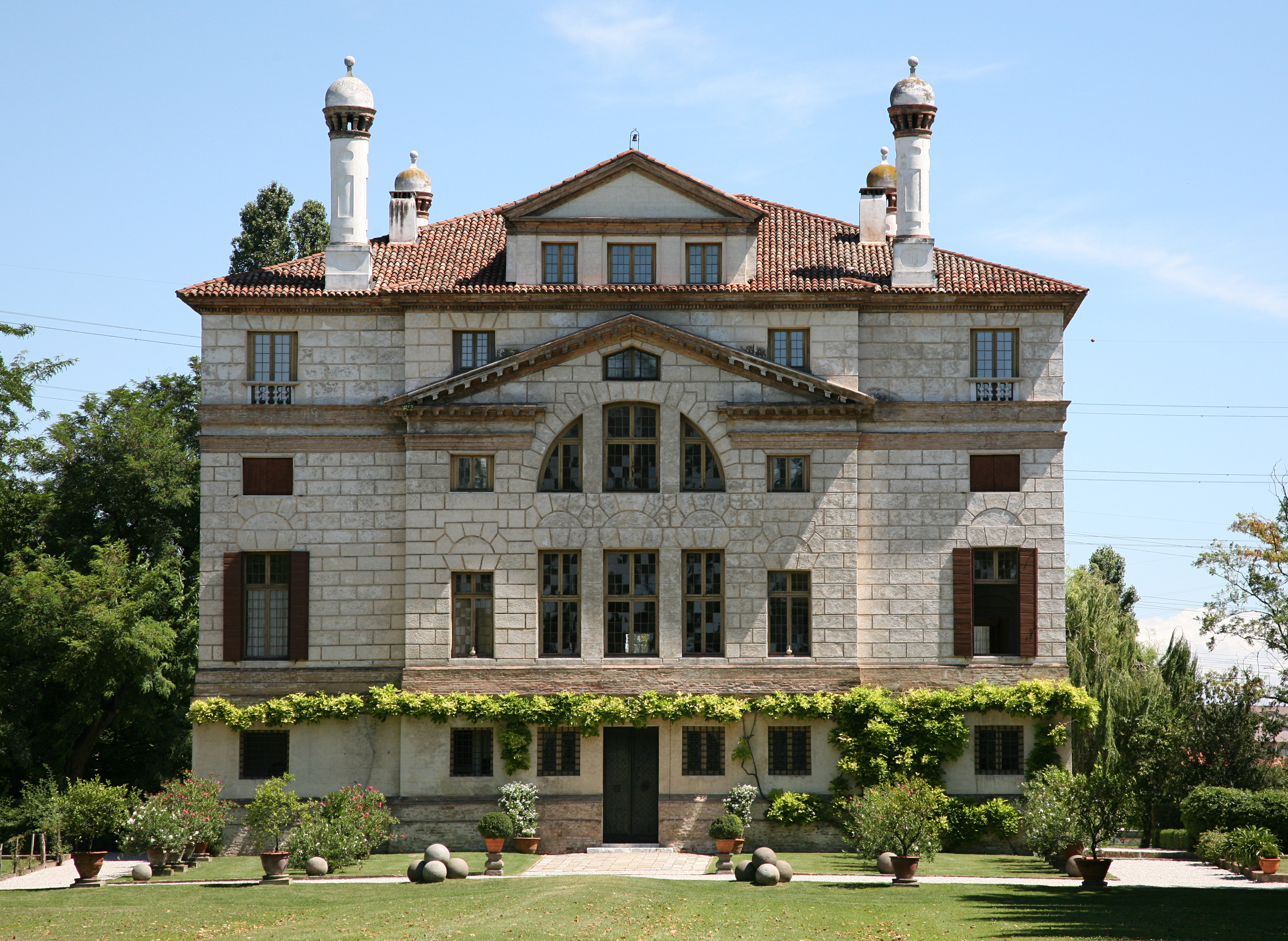 Villa Foscari, also called La Malcontenta. Villa near Venezia by Andrea Palladio.